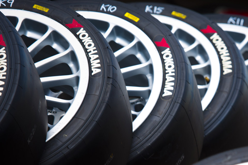 Yokohama STCC tires.